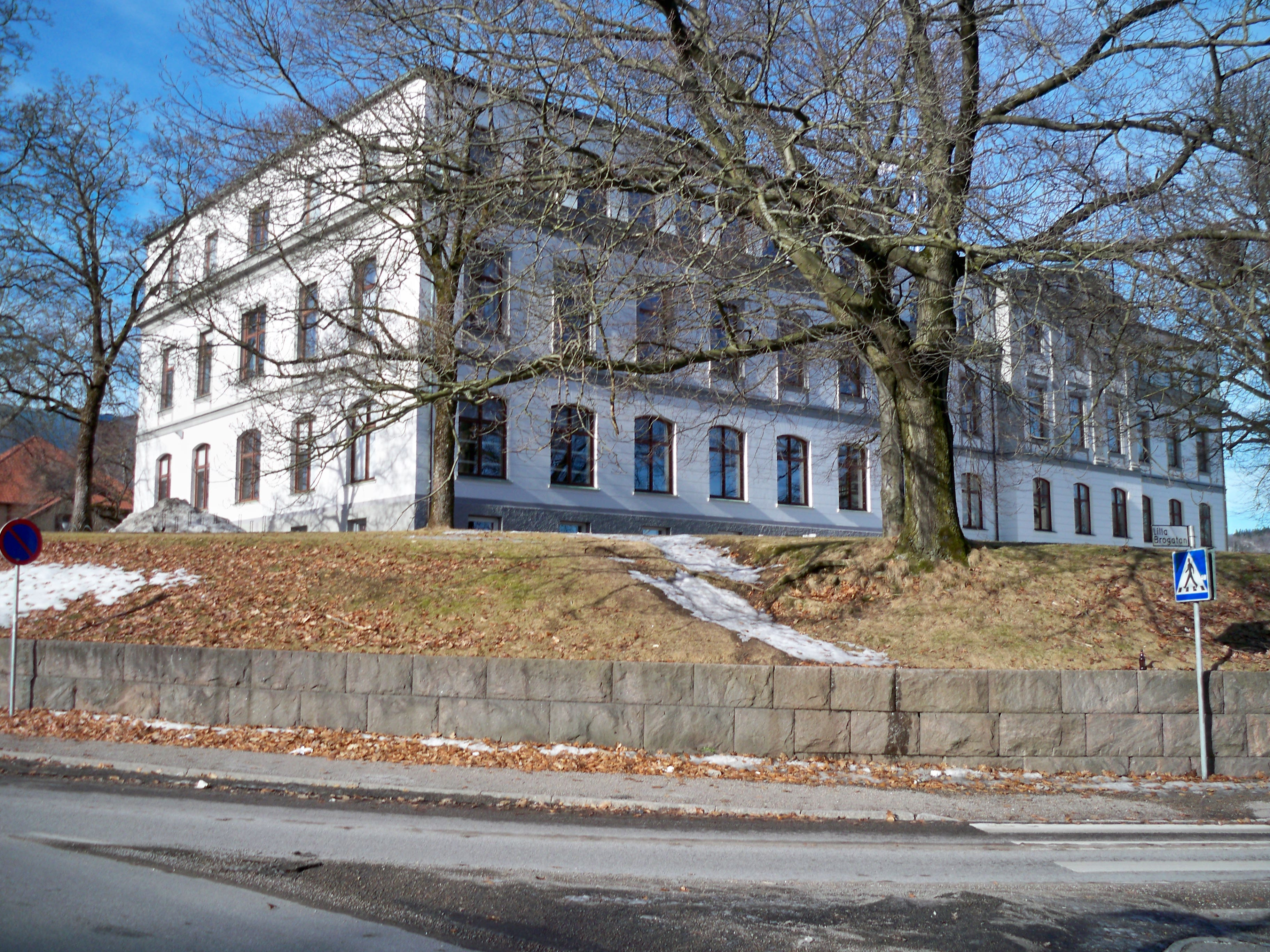 The oldest building of the present Sven Eriksonsgymnasiet, a gymnasium in the city of Borås, Sweden. The building is from the school founding year 1856. The school exclusively focused on higher technical learning and was called Tekniska Elementarskolan i Borås.